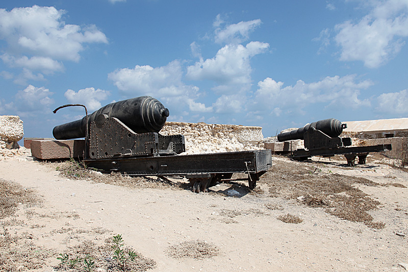 Canons in the el-Sabaa Fort, Abu Qir, Egypt